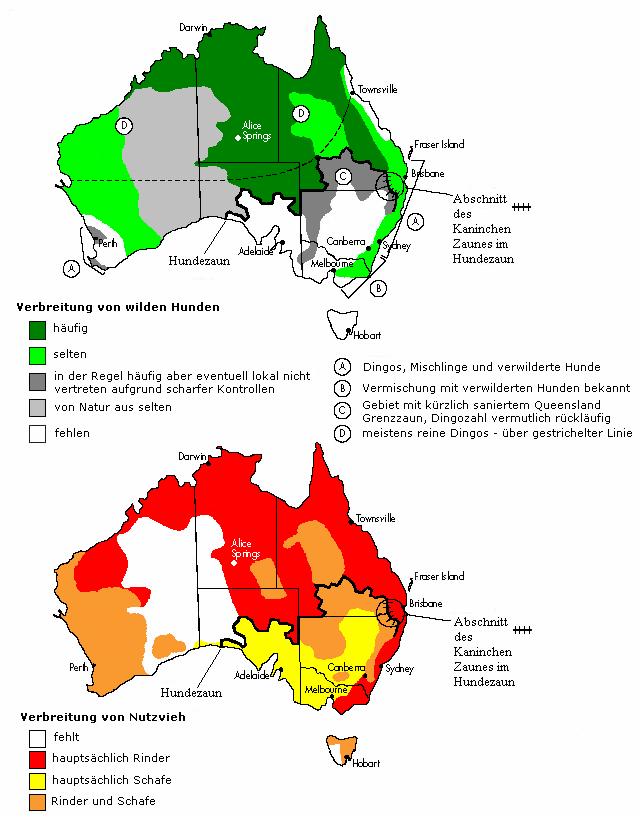 distribution of wild dogs and livestock in australia (only in german)